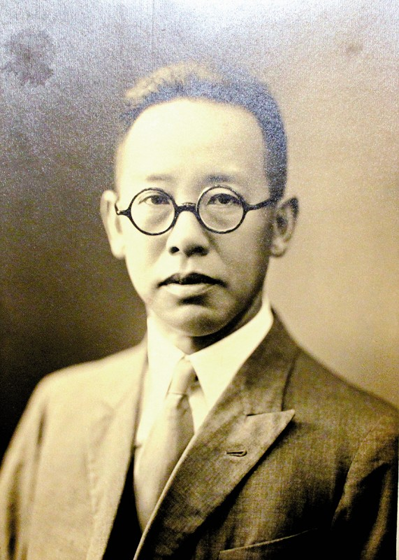 Wei Chenzu (1885－1942)